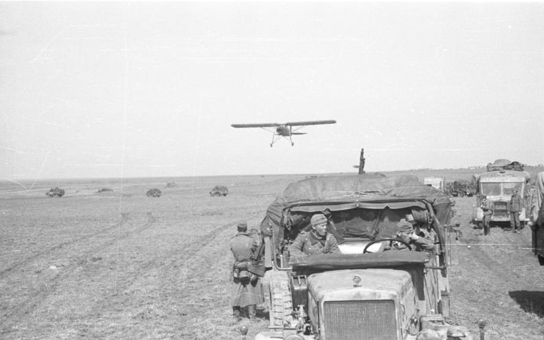 A car is Einheits-Diesel truck